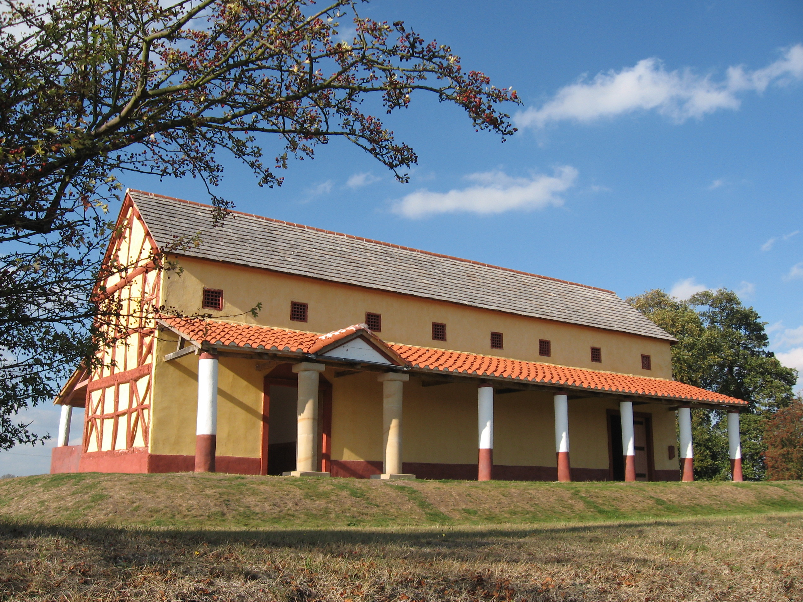 Replica Roman Villa, Wroxeter